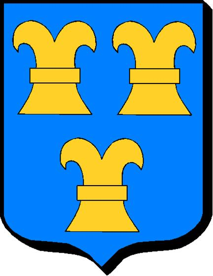 Coat of arms of the de Brons Family (France, Aquitaine)